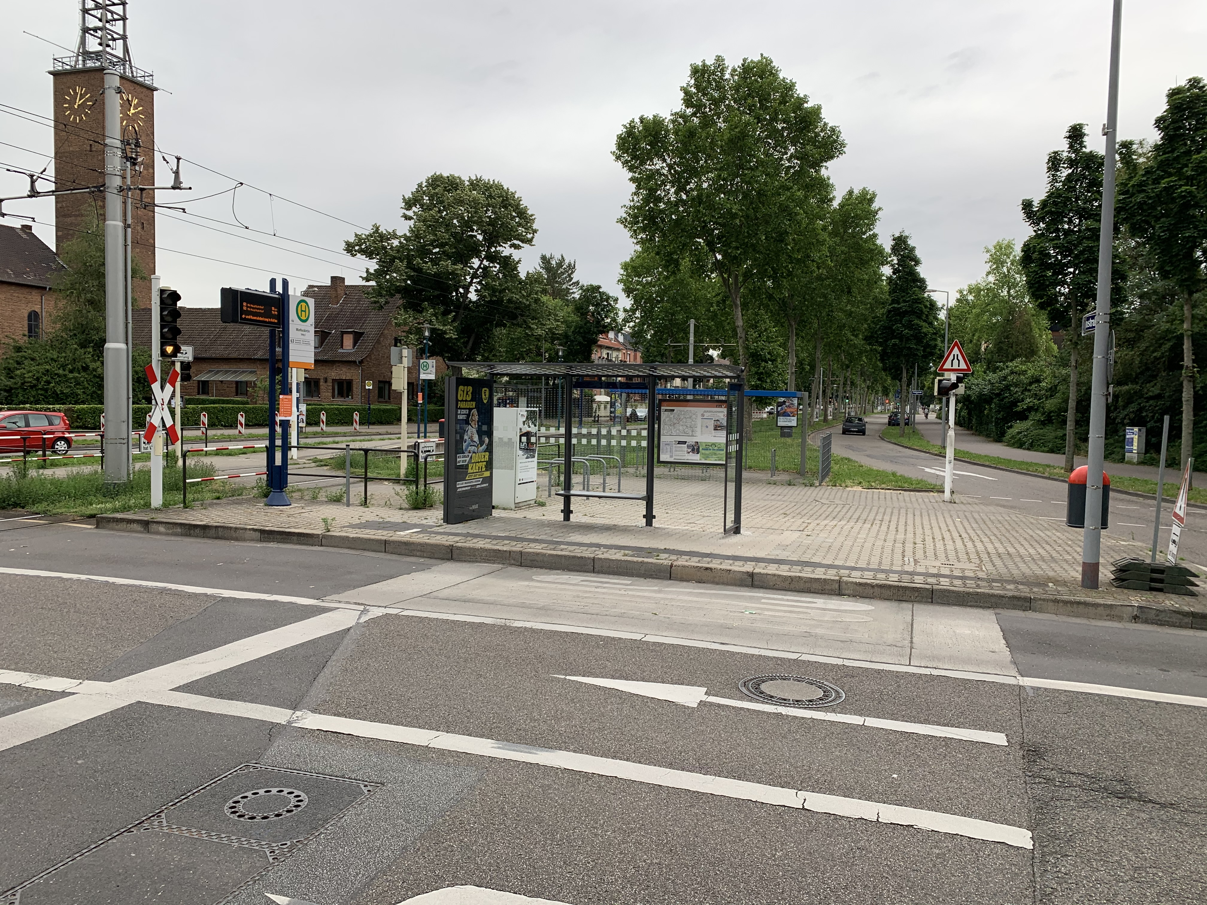 Primove Charging Pad, Markuskirche Mannheim Germany.